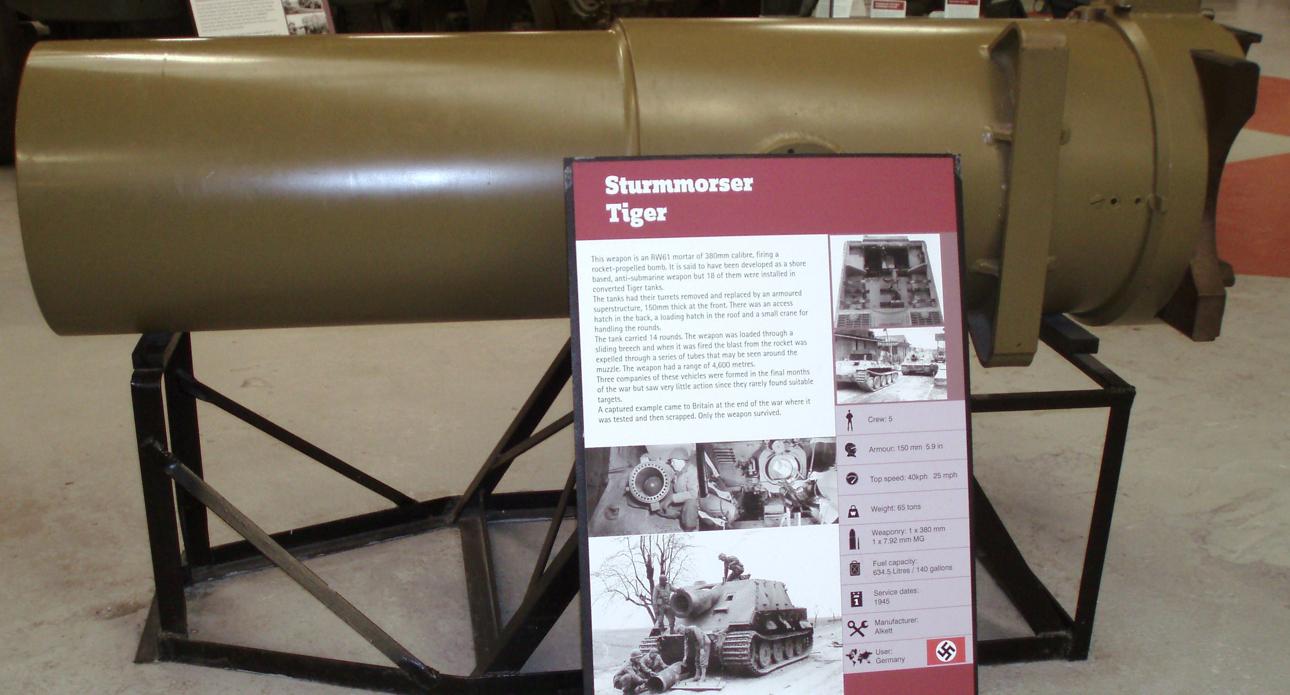 Bovington Tank Museum 269